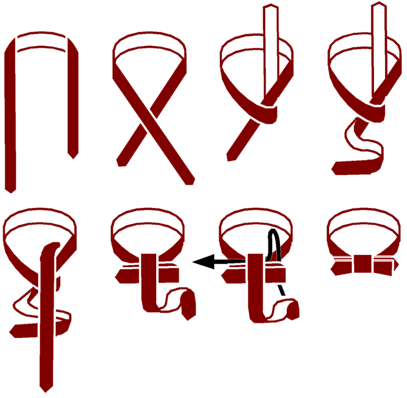 How to tie a bowtie: This is one option showing how to tie a bowtie.